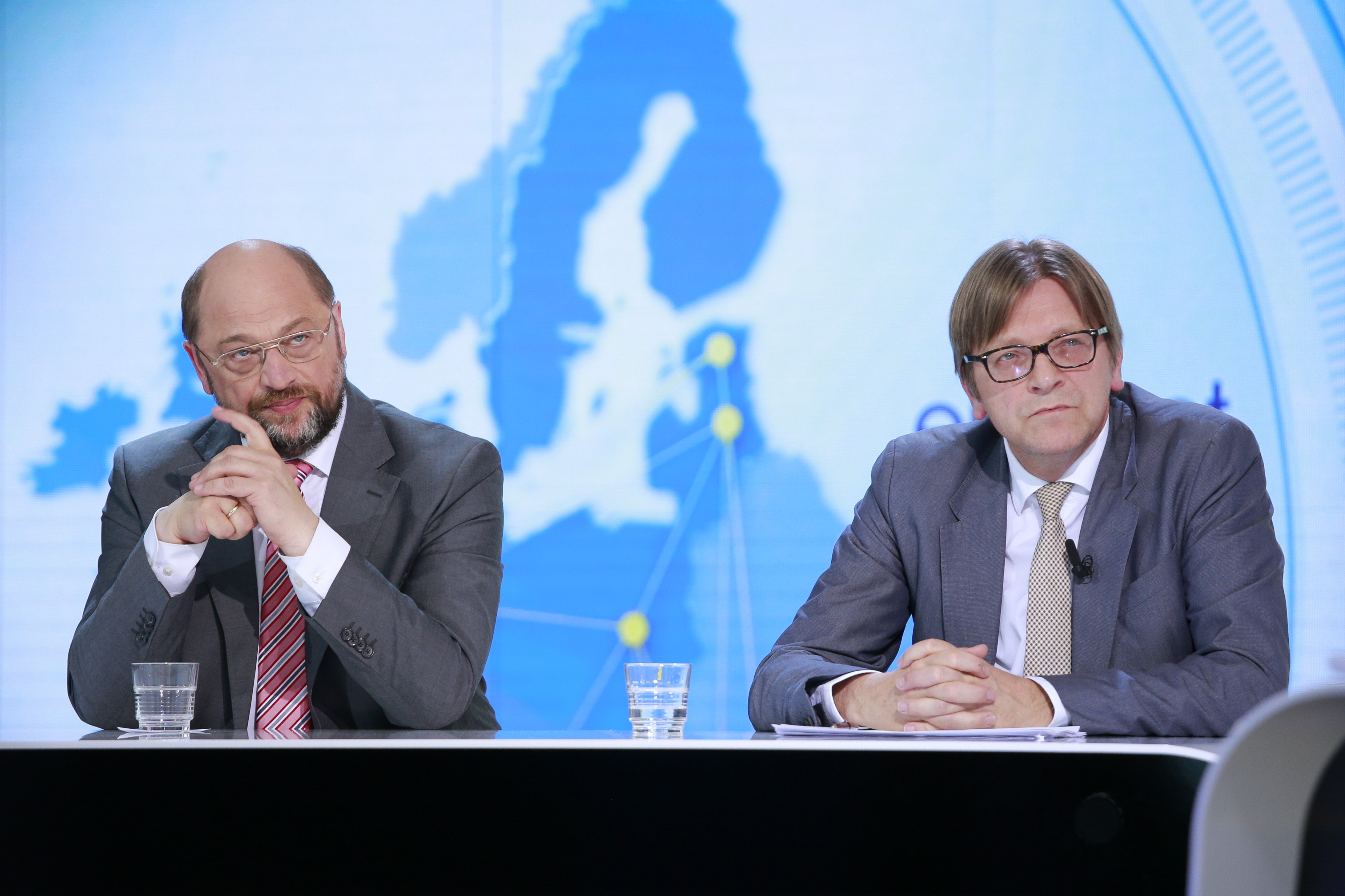 Who will be the next president of the European Commission? And how will he – or she – deal with the big election issues, like mobility, energy and unemployment? With just weeks to go before the EU-wide election in May, Euranet Plus talk directly with the top candidates. On April 29, the presidential hopefuls came together to answer these questions and more, outlining their plans for the next five years. Guests - Jean-Claude Juncker (European People’s Party), - Ska Keller (European Green Party), - Martin Schulz (Party of European Socialists) and - Guy Verhofstadt (Alliance of Liberals and Democrats for Europe) Moderators: - Brian Maguire - Ahinara Bascuñana López The videos, audios and all the details about the Big Crunch debate at